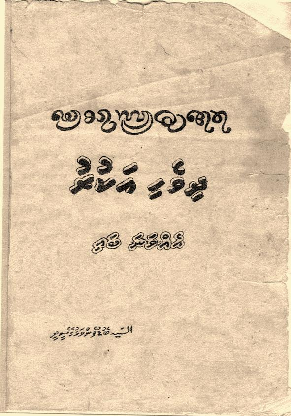 own picture